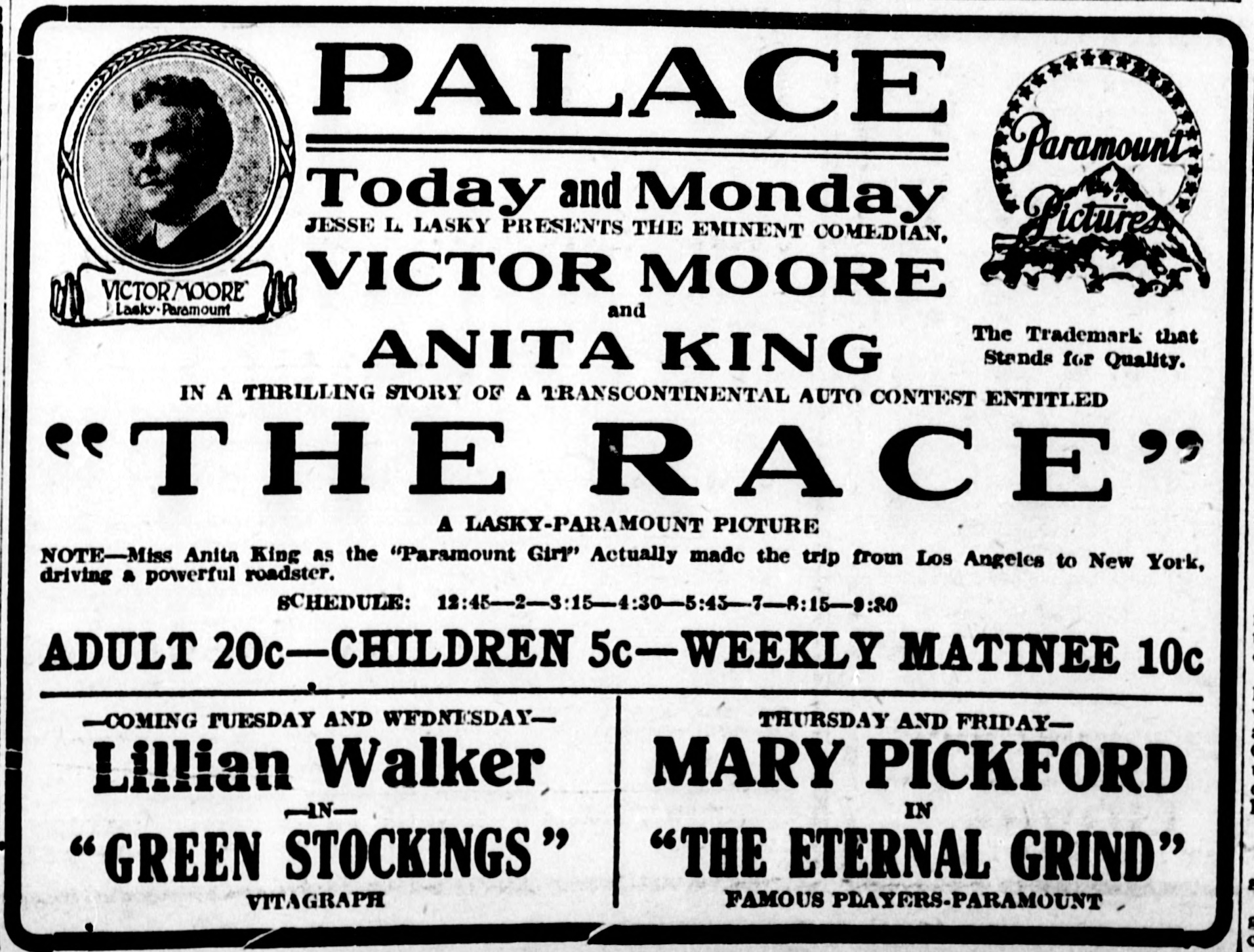 The Race is a 1916 American drama silent film directed by George Melford and written by Hector Turnbull and Clinton Stagg. This is a newspaper advert for the film.